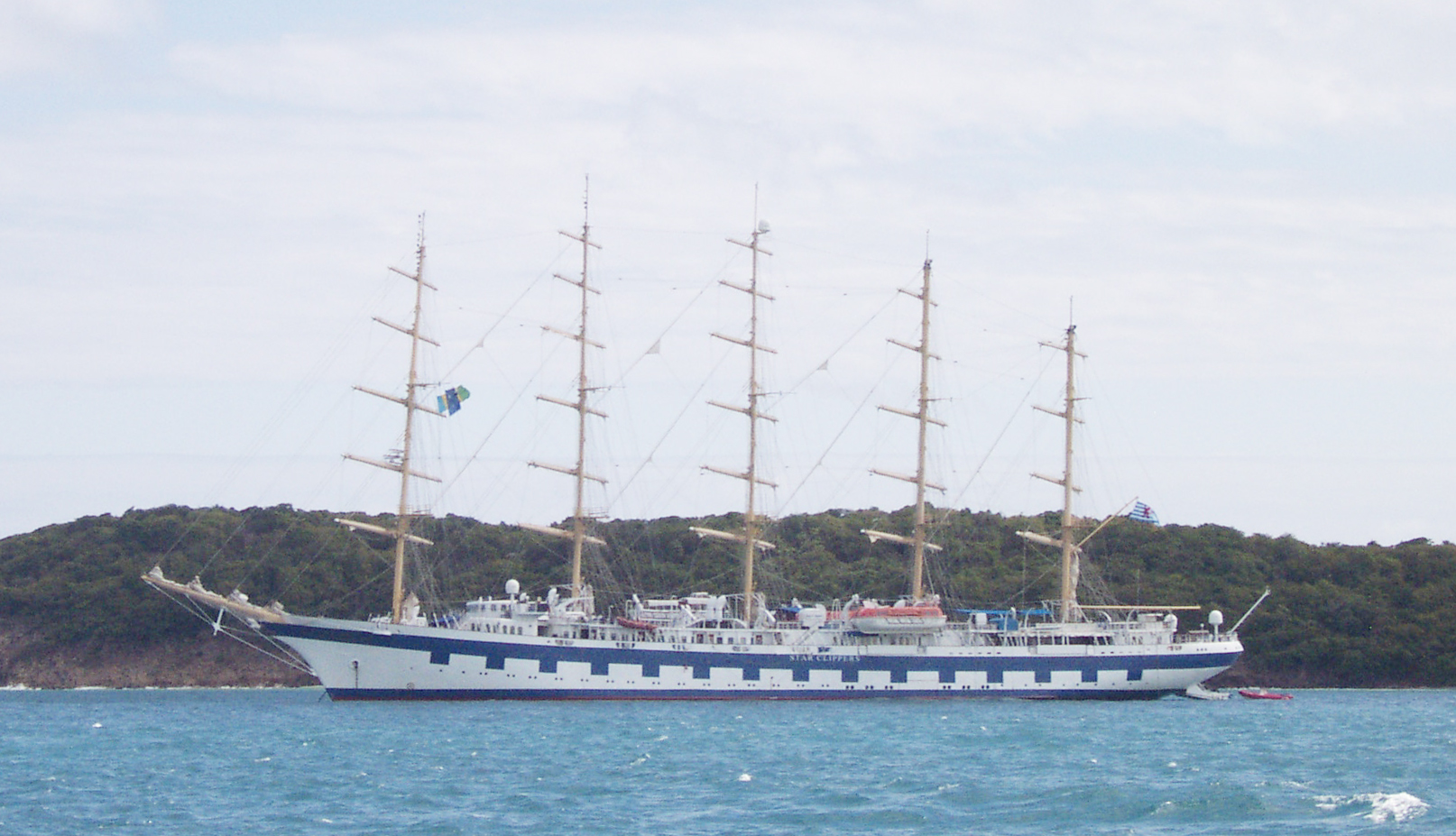 Description = Royal Clipper aux Grenadines (Caraibes) Source =Photo taken by Remi Jouan Date =Decembre 2003 Author =Remi Jouan